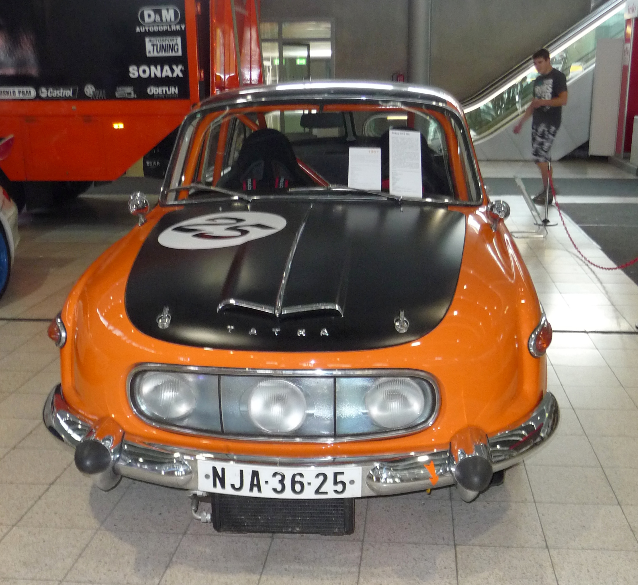 Tatra 603 B6, year 1967, the only existing car, Autosalon Brno 2011, The Brno Exhibition Grounds -10 -5 -3 -2 ◄ ► +2 +3 +5 +10